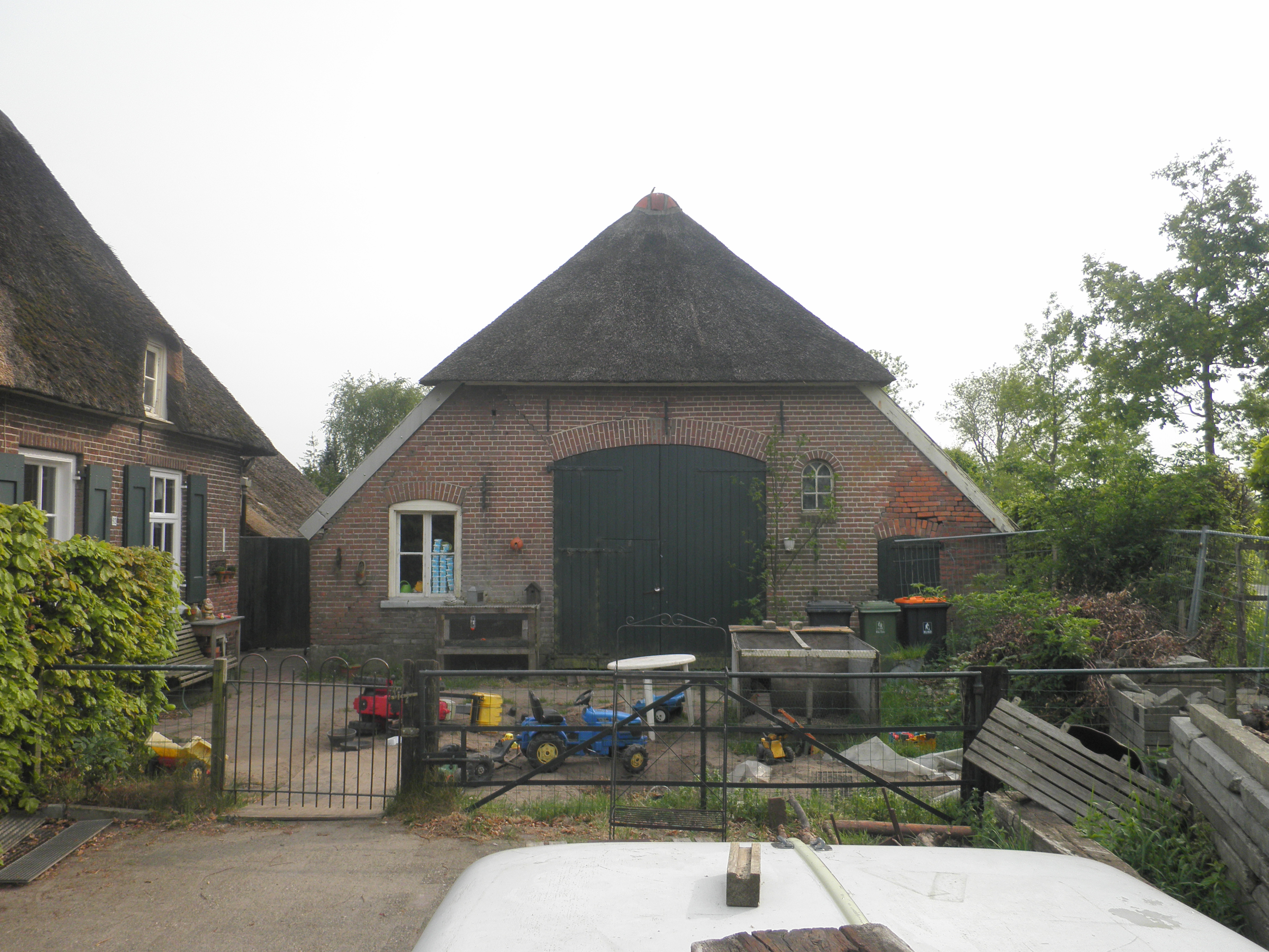 "De Riete" farm barn, built of red factory brick, partly thatched, partly red tiled half-hipped roof. Nationally listed heritage.